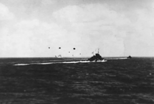 Joint Australian-United States naval Task Group 17.3 under air attack by Imperial Japanese Navy land-based bombers during the Battle of the Coral Sea on May 7, 1942. The large ship in the foreground is HMAS Australia.